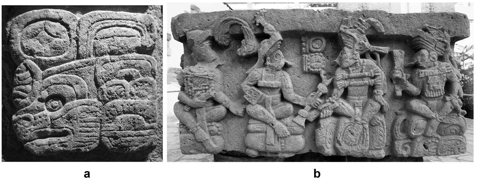 fragments of a Papagayo Step (showing the Copan emblem glyph) and Altar Q (Showing the 2, 1, 16, 15 kings of Copan), 500-800 AD